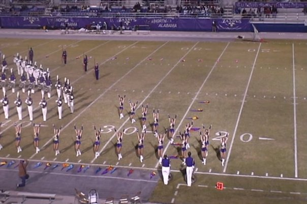 Pride of Dixie Halftime Show